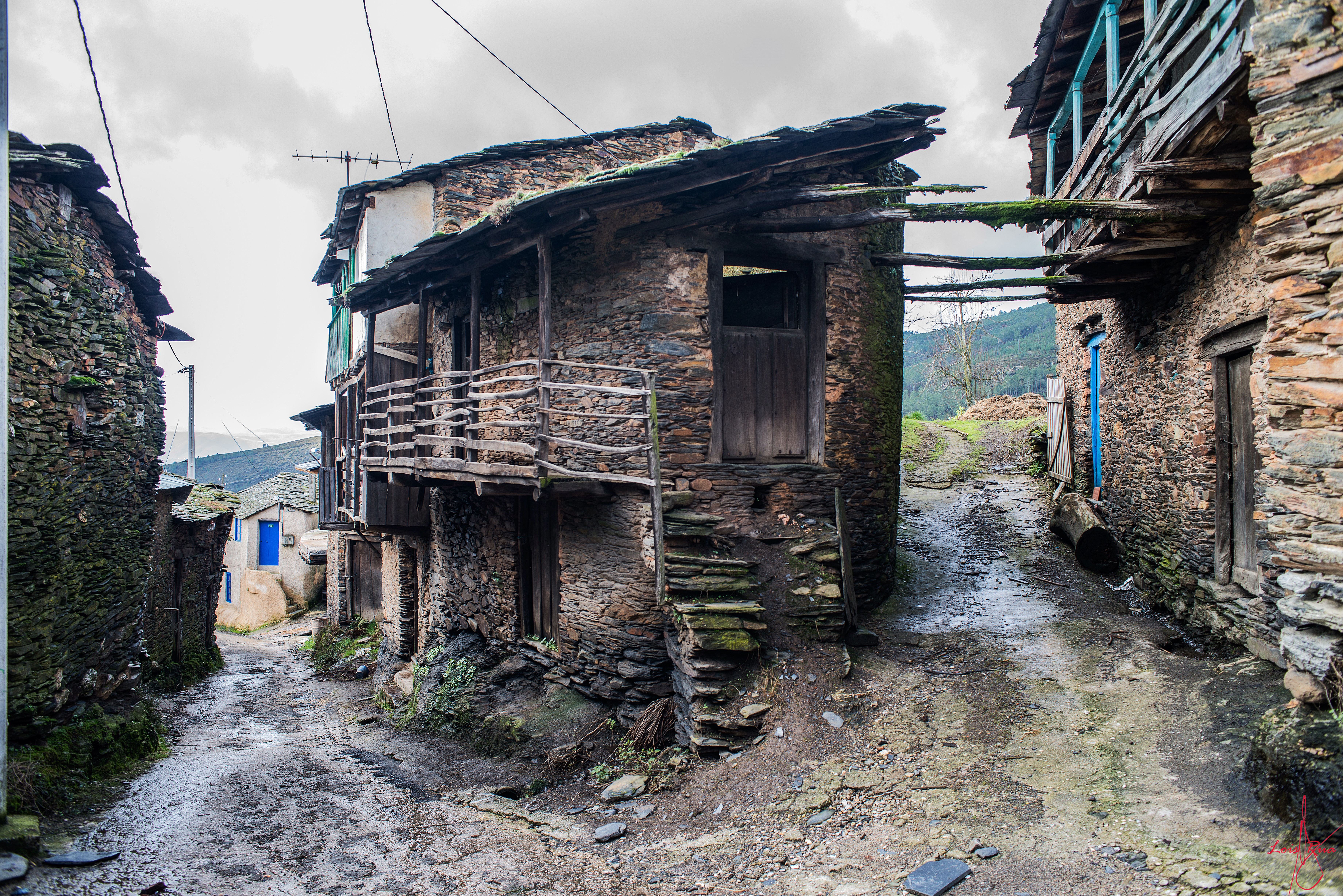 San Xulián, no concello de A Rúa de Valdeorras.Galicia. Nikkor 28 mm f/2.8 AI-S